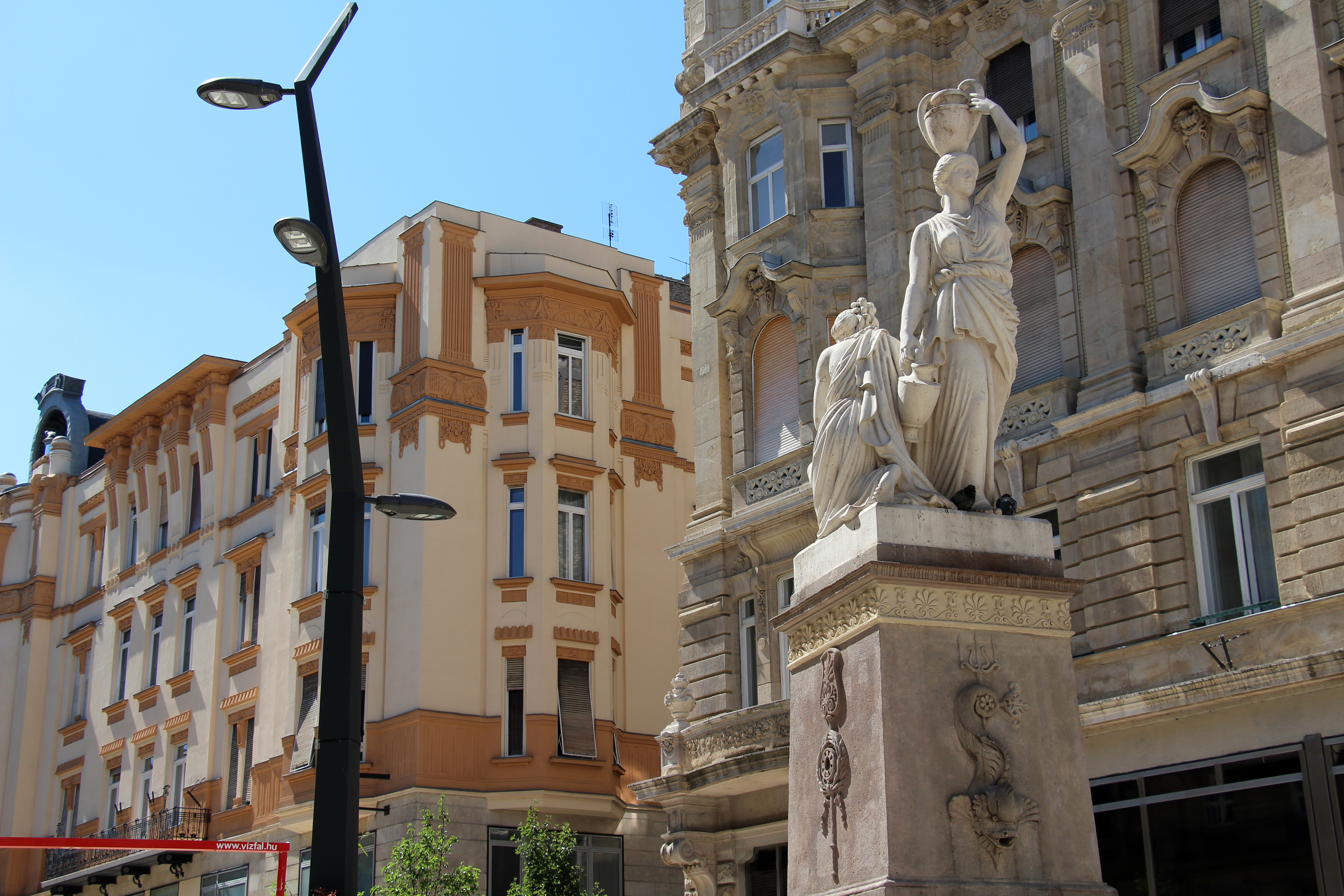 Belváros - Ferenciek tere Well of the Nereids. Arch. József Fessl and Lőrinc Dunaiszky Sculptor: Ferenc Uhrl 1835 Destroyed during World War II, it was re-designed based on the remaining photographs. Sculptor: Győri Dezső